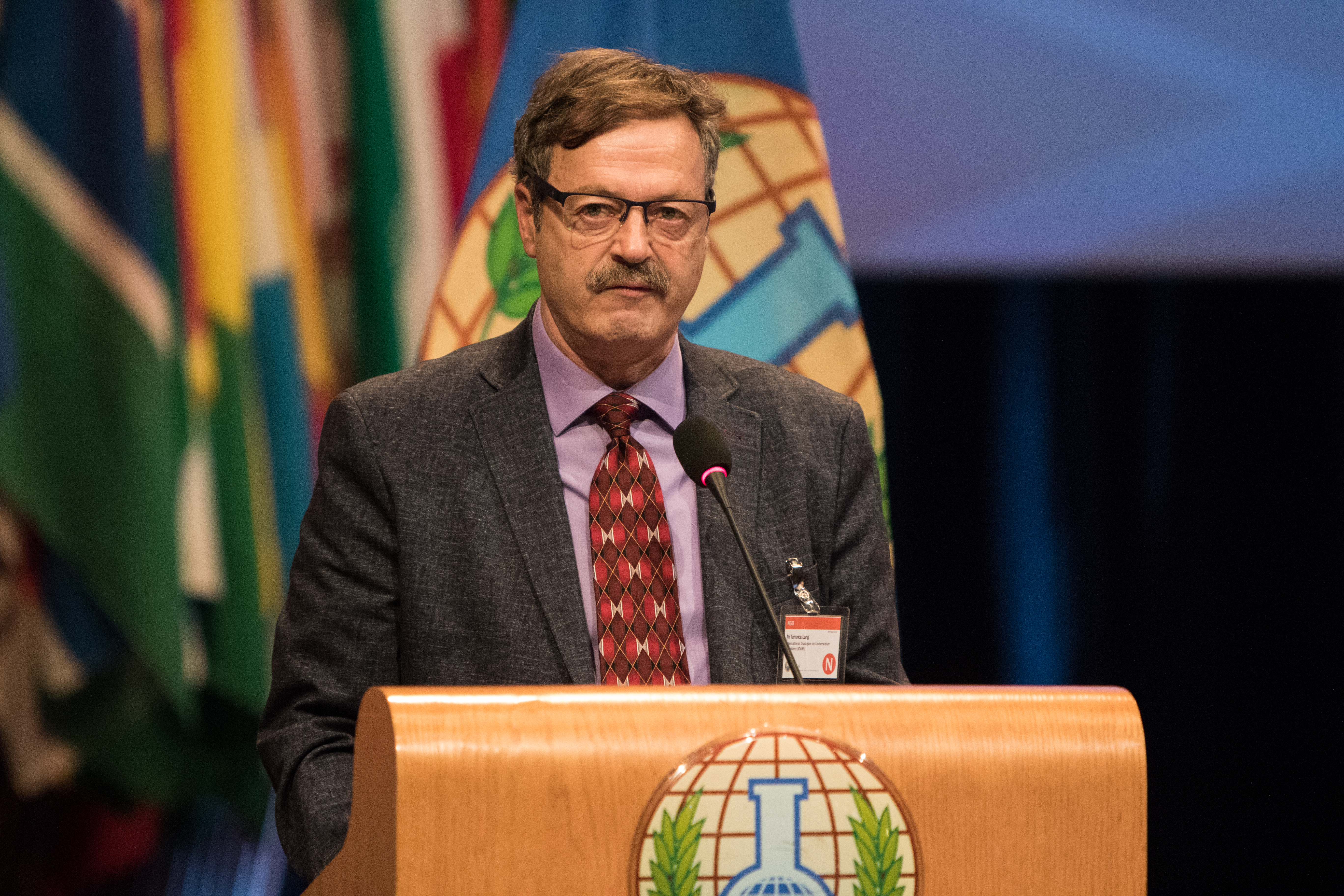 Mr. Terrance Long, International Dialogue on Underwater Munitions (IDUM) (Canada), speaking at OPCW's Fourth Review Conference. The Conference is held at the World Forum, The Hague, the Netherlands, from 21-30 November 2018.